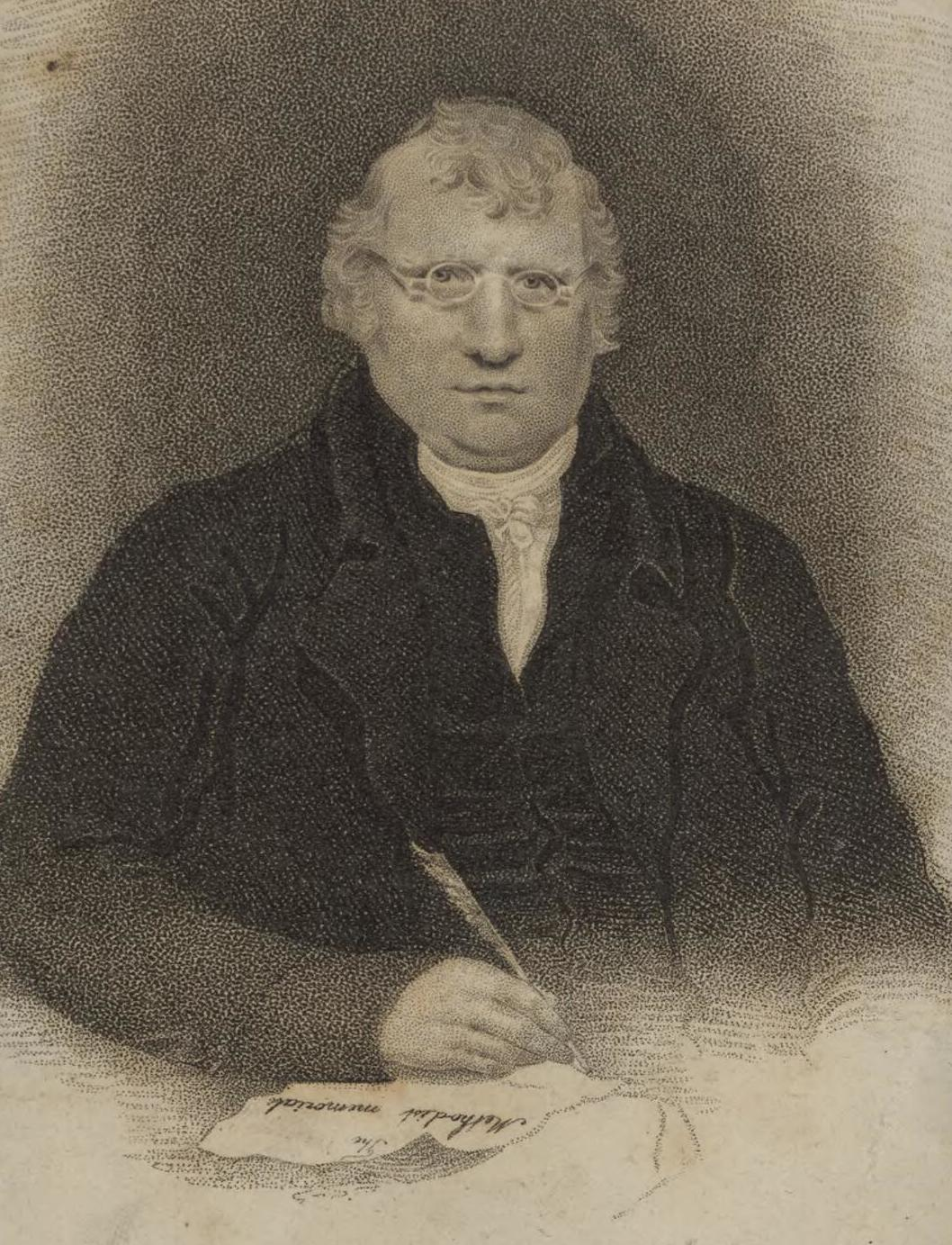 A portrait from the Welsh Portrait Collection at the National Library of Wales. Depicted person: Charles Atmore – Methodist preacher